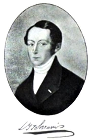 Louis J.J. Serrurier